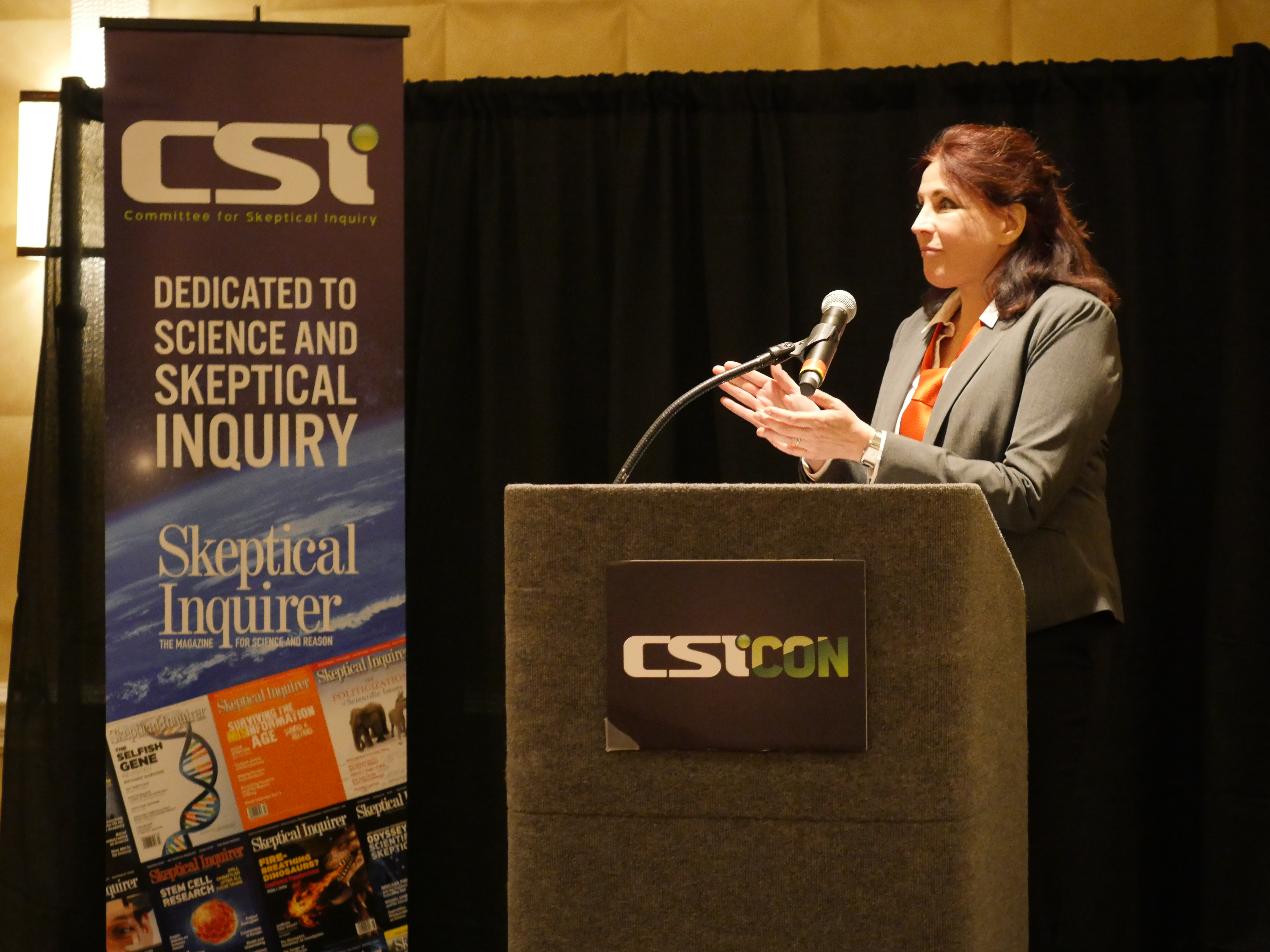 Robyn Blumner @ CSICon 2017 Thu Oct 26